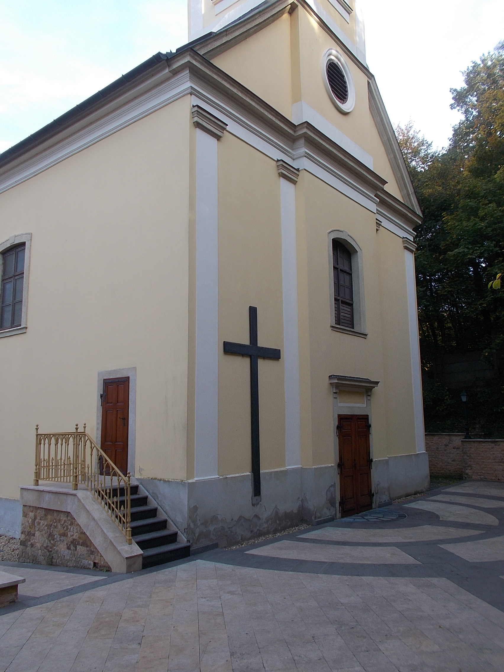 Presentation of Virgin Mary Church southwest facade detail (15th century sacristy, 1763 baroque nave, 1845 Neoclassical tower, 18th century furniture). Located at the end of Pelsőczy Ferenc Street, Törökbálint, Pest County, Hungary.